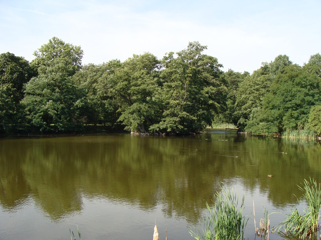 Krzyżanowo, pond.